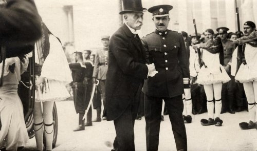 President Pavlos Koundouriotis of Greece shakes the hand of a senior police officer shortly after his escape from an assassination attempt, Athens 1927